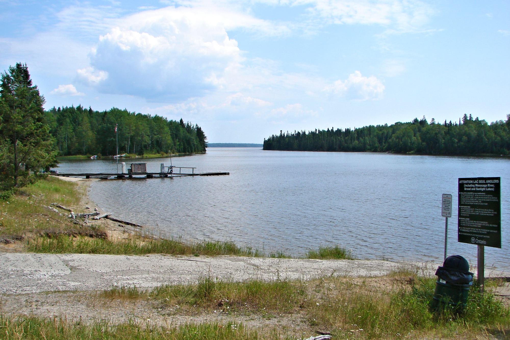 Lac Seul near Ear Falls, Ontario, Canada